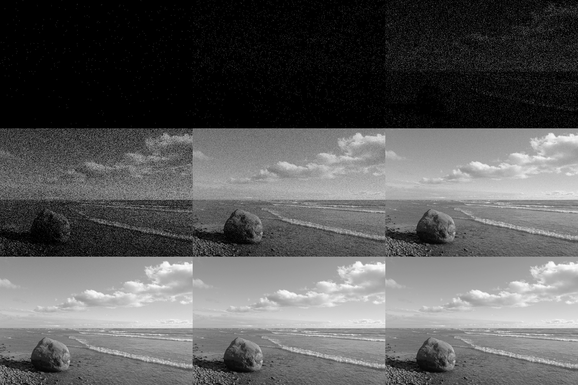 A photon noise simulation, using a sample image as a source and a per-pixel Poisson process to model an otherwise perfect camera (quantum efficiency = 1, no read-noise, no thermal noise, etc). Going from left to right, the mean number of photons per pixel over the whole image is (top row) 0.001, 0.01, 0.1 (middle row) 1.0, 10.0, 100.0 (bottom row) 1,000.0, 10,000.0 and 100,000.0. Note the rapid increase in quality past 10 photons/pixel. (The source image was collected with a camera with a per-pixel well capacity of about 40,000 photons.) Please click on the image to see the larger form; the low-level images are mainly isolated pixels, and your browser (or wikipedia's server) may be downsampling them to black. Photon noise is the dominant source of noise in the images that are collected by most digital cameras on the market today. Better cameras can go to lower levels of light -- specialized, expensive, cameras can detect individual photons -- but ultimately photon shot noise determines the quality of the image.